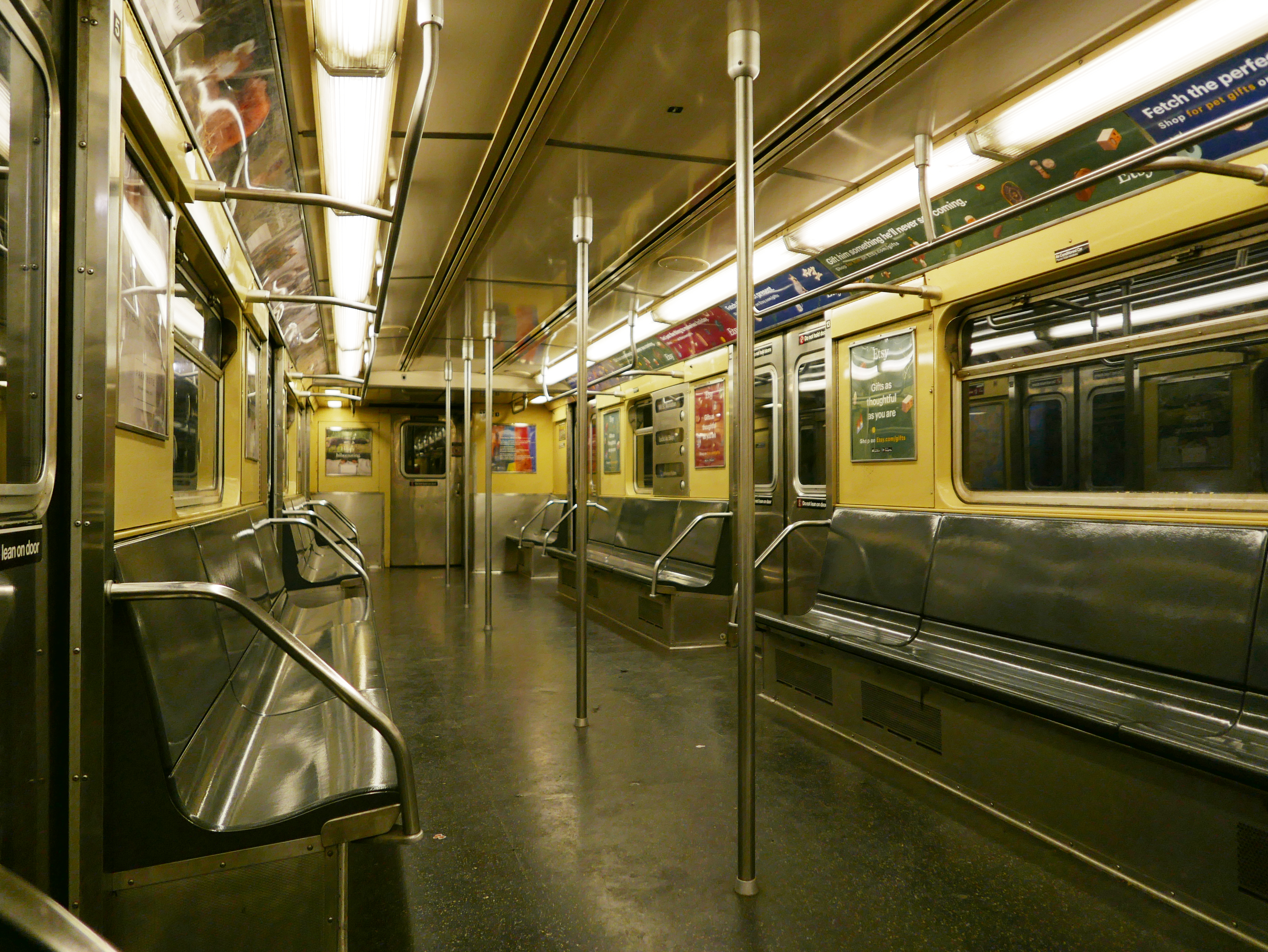 Taken from within a northbound R32 C train between Euclid Avenue and Shepherd Avenue stations. Camera facing southbound. No passengers.